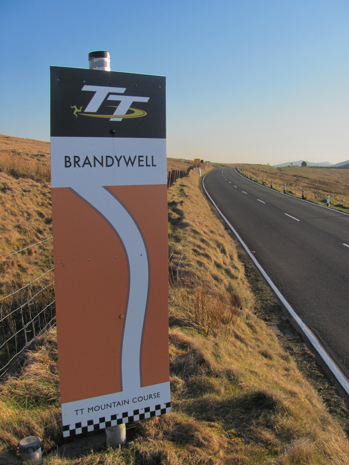 Description : Brandywell, A18 Mountain Road: 19th April 2015 Source : 11th Milestone at en.wikipedia Permission See below